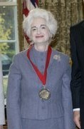 Judith Martin (aka Miss Manners) upon receipt of the 2005 National Humanities Medal